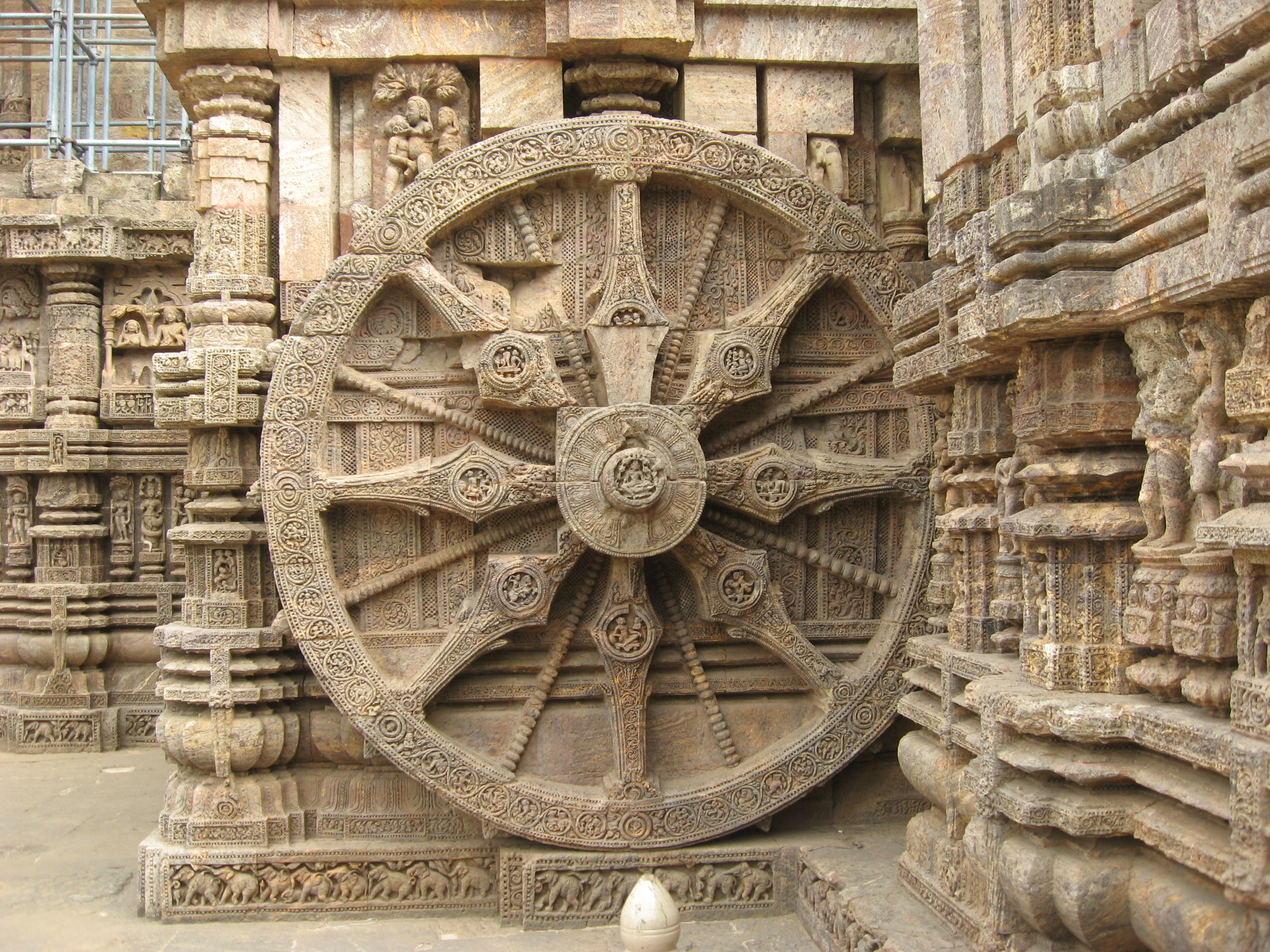 Konark Sun Temple is a 13th-century Sun Temple (also known as the Black Pagoda), at Konark, in Orissa. It was constructed from oxidizing and weathered ferruginous sandstone by King Narasimhadeva I (1236-1264 CE) of the Eastern Ganga Dynasty. The temple is one of the most well renowned temples in India and is a World Heritage Site.